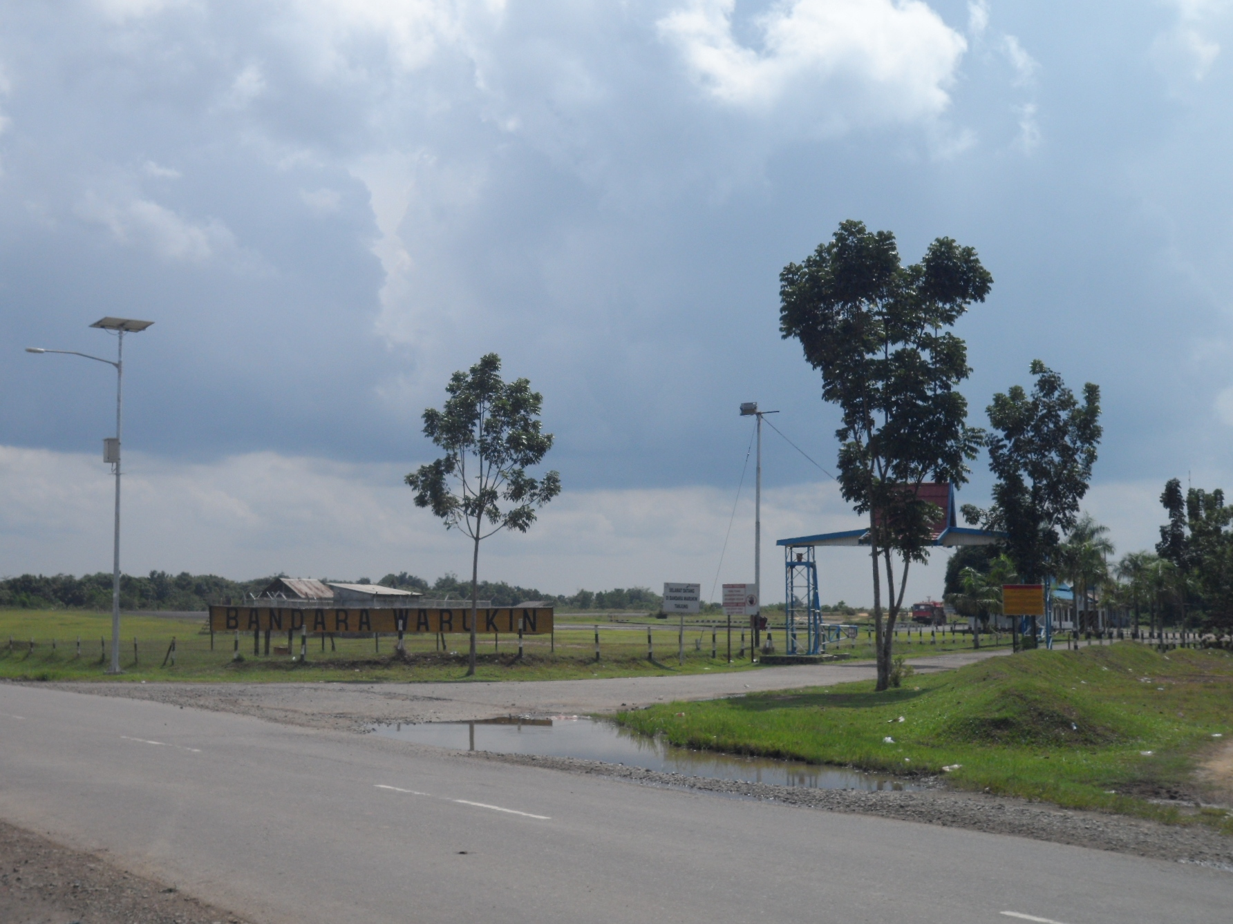 Warukin Airport, Warukin, Tanta, Tabalong, South Kalimantan, Indonesia